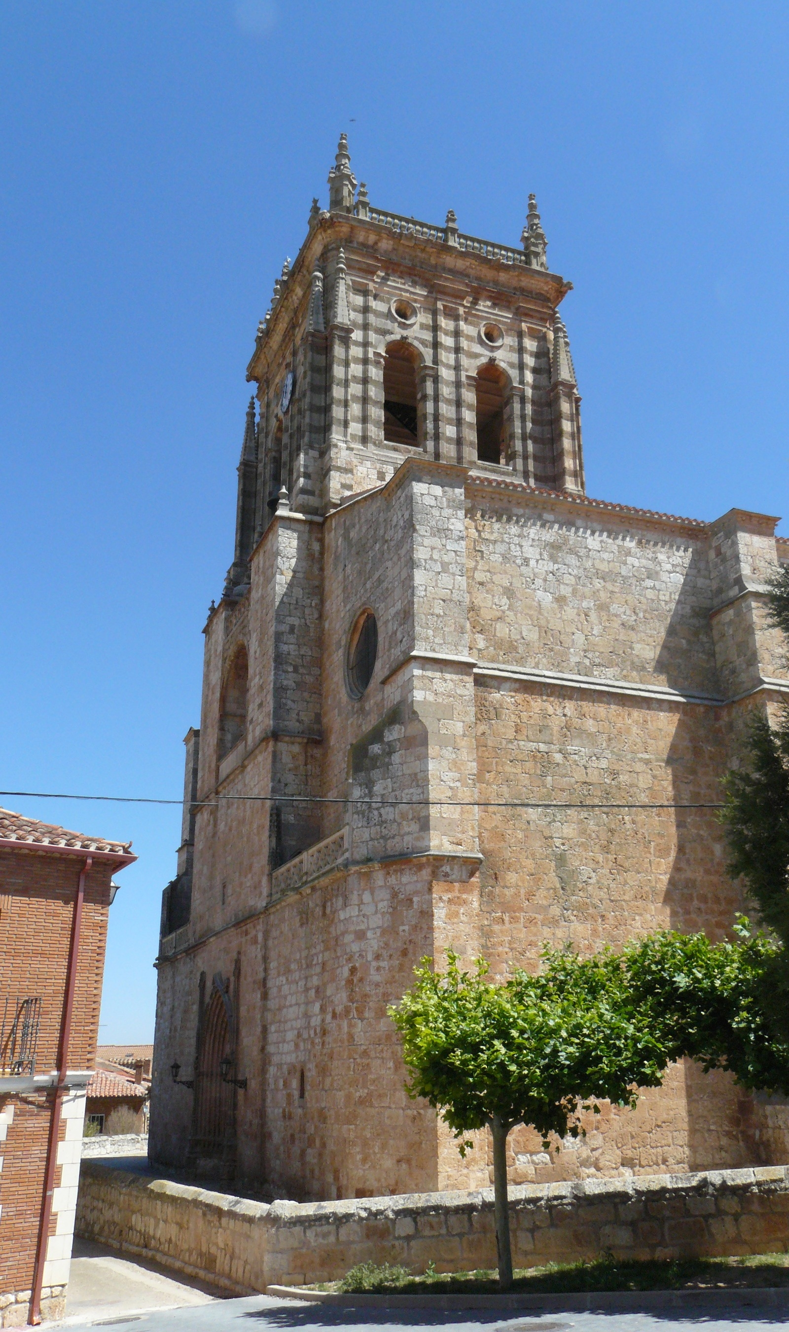 Church tower at Villahoz, Burgos, Spain